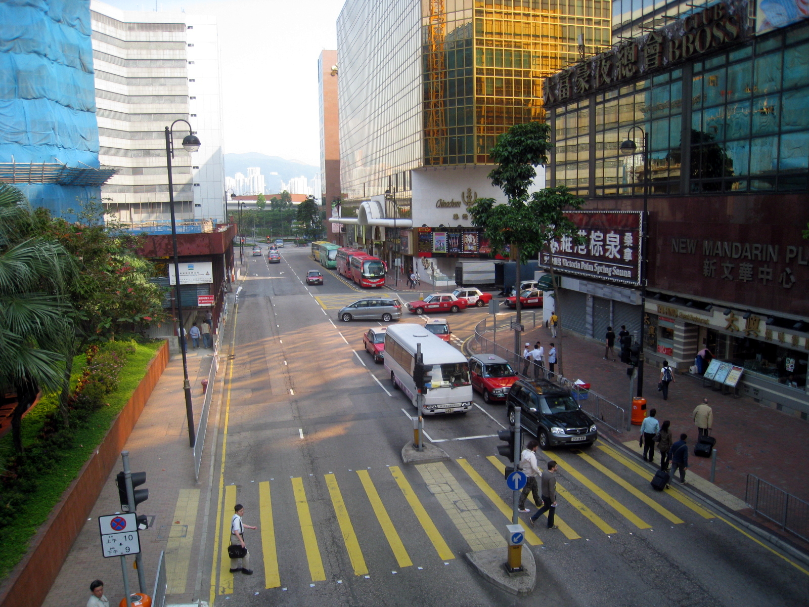 HK Science Museum Road 科學館道